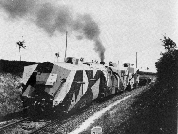 Czechoslovak armored train